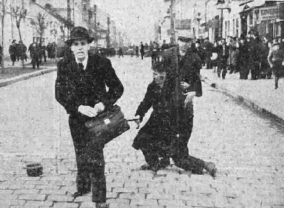 Members of the Zbor attacked by Communists in one of Ljotic's lectures in Ljubljana. Српски (ћирилица): Чланови Збора нападнути од стране комуниста, на једном од Љотићевих предавања у Љубљани.